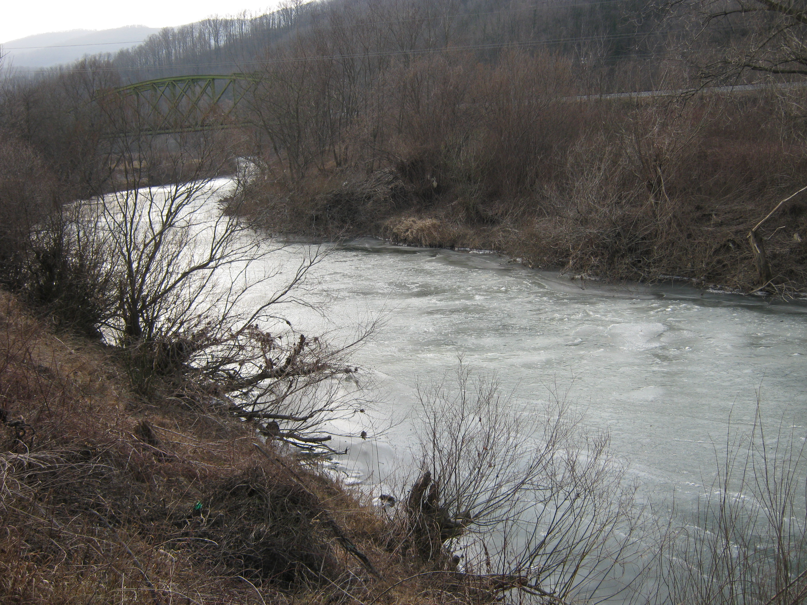 Zmrznjena vipava